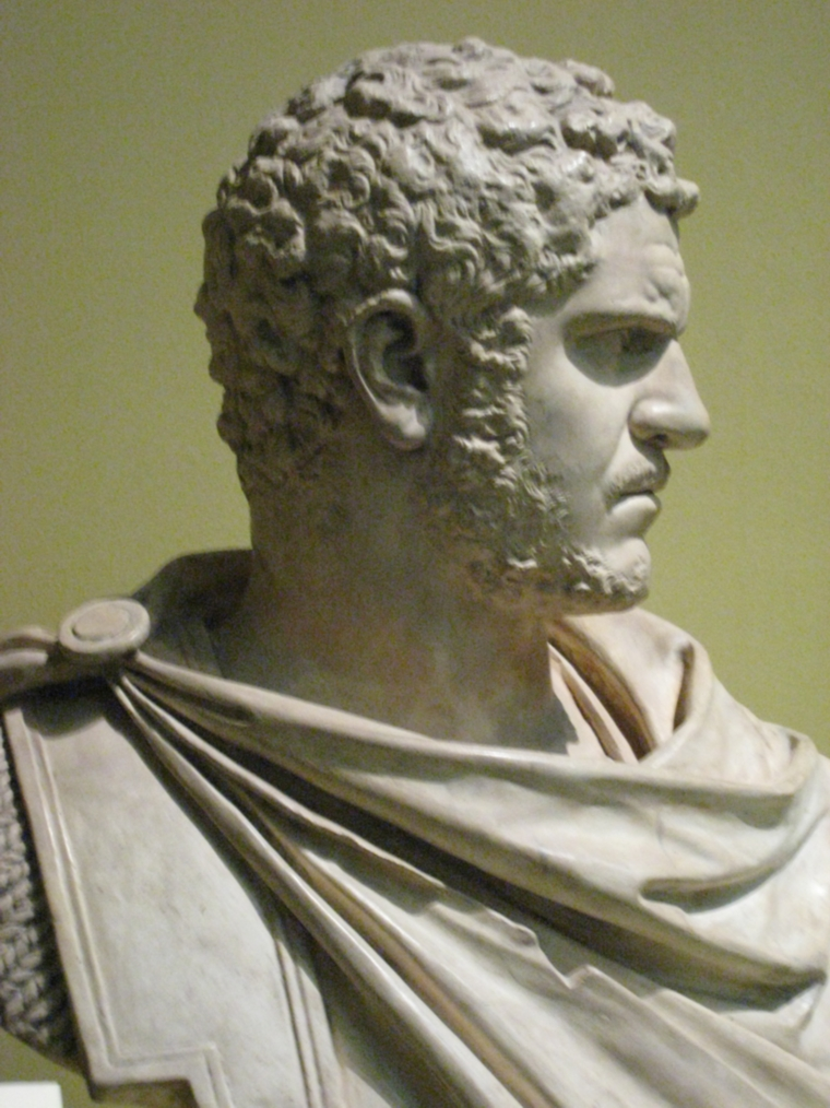 Bust of emperor Caracalla. Cast in Pushkin Museum. The original was found in the surroundings of Rome, is part of the Farnese Collection, and is now in the National Archeological Museum, Neaples.